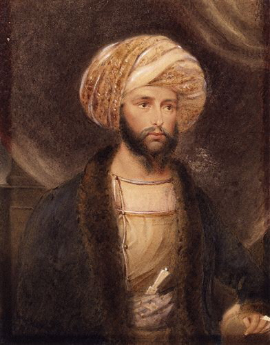 Portrait of James Abbott, watercolour, who was a British army officer in colonial India, serving as a major and later general. Abbott was the namesake of Abbottabad in British India (now Pakistan). 8 in. x 6 in. (203 mm x 152 mm). Courtesy of the National Portrait Gallery, London.